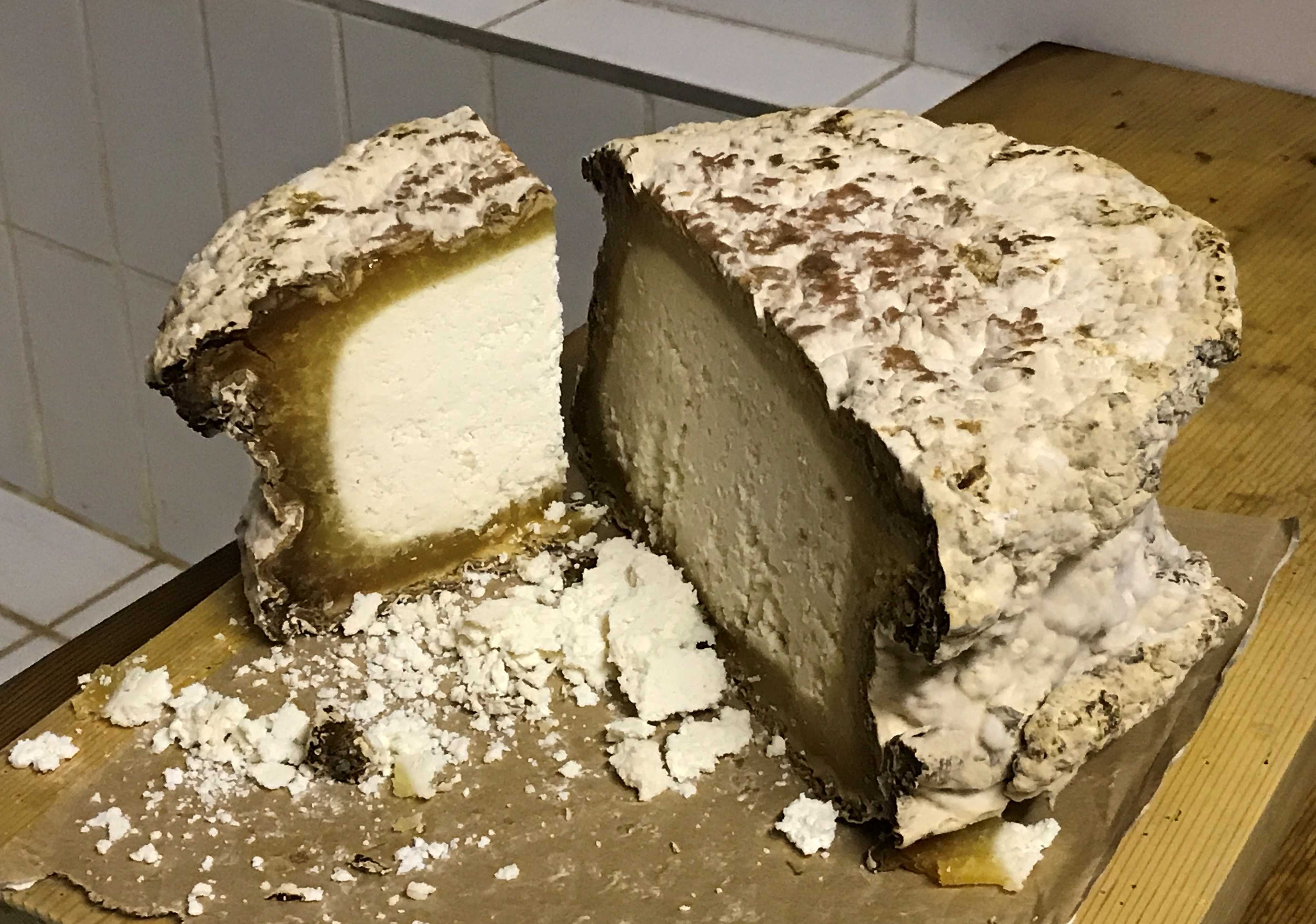 Tyrolean grey cheese Loaf - Graukäse